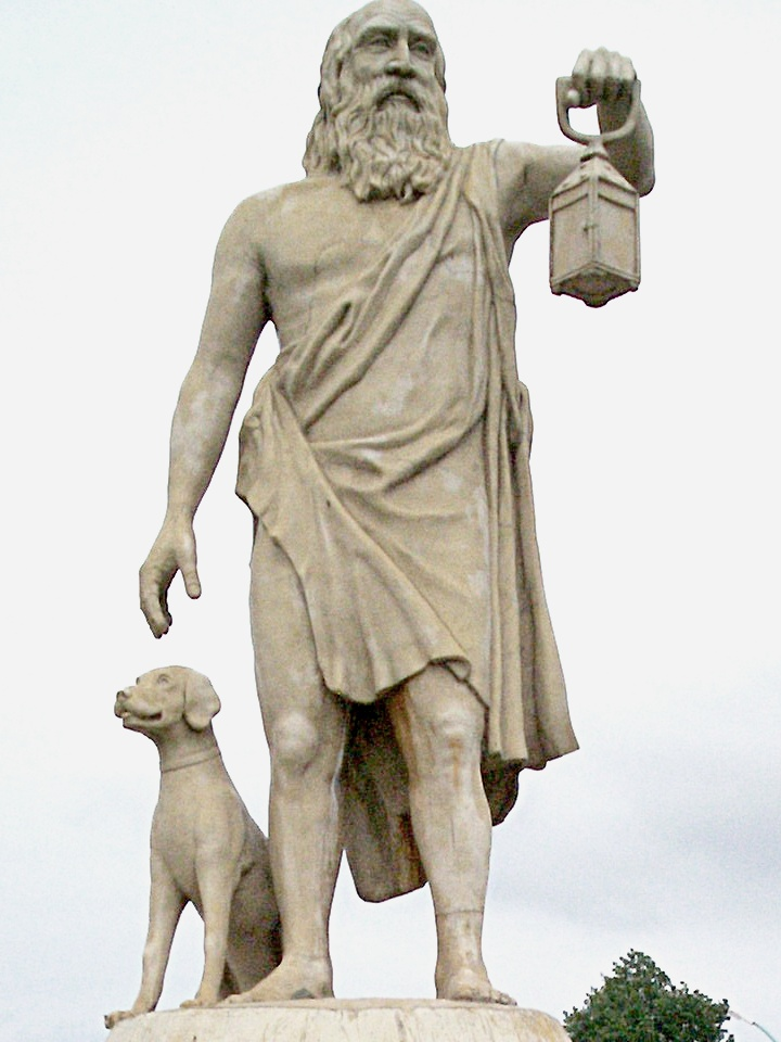 Statue of Diogenes, Sinop, Turkey